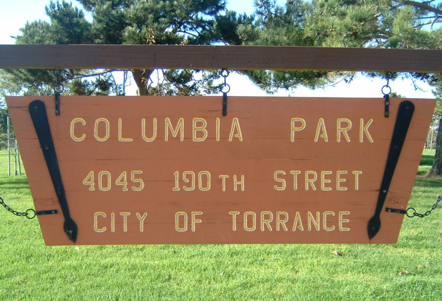 Photo of the southwest corner of Columbia Park in Torrance containing the signage identifying the park.